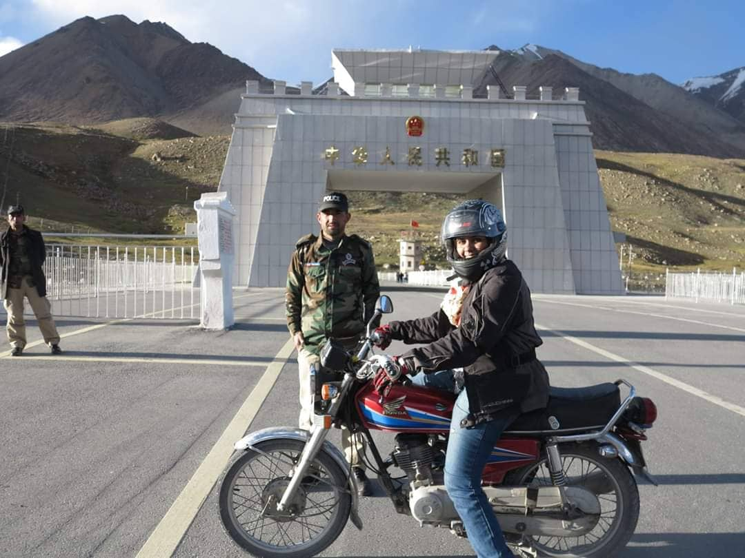 Zenith Irfan, the motorcycle girl of Pakistan, is visiting Khunjerab Pass during her tour to the northern areas of the country.